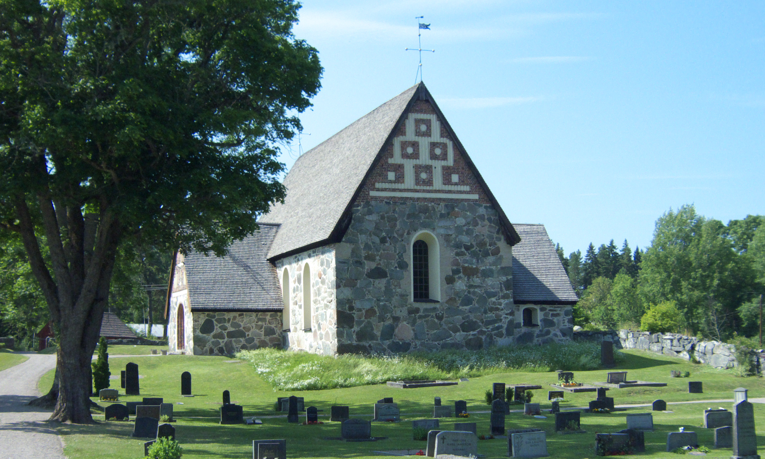 Dannemora church